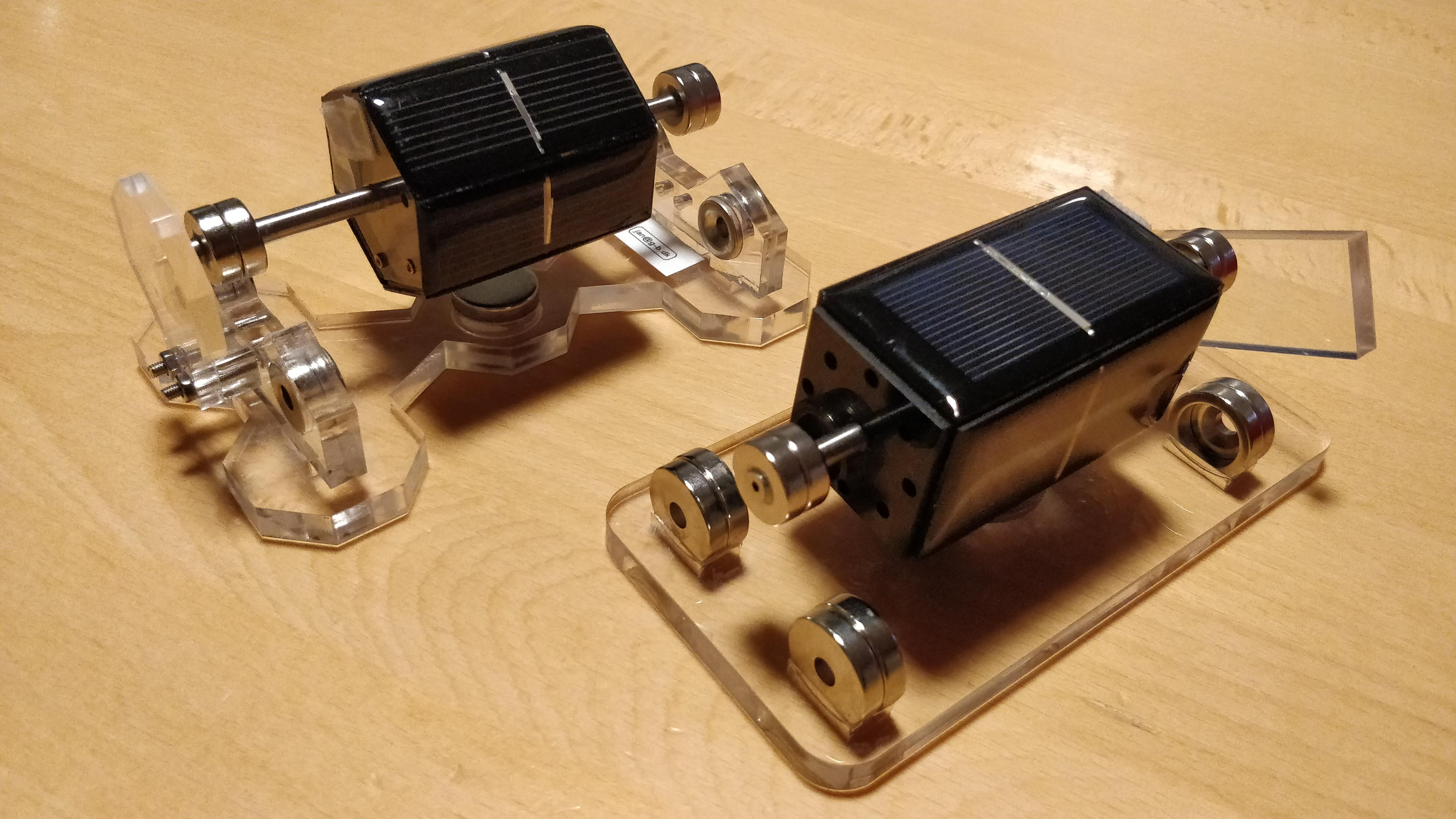 Two Mendocino motors, showing different solar panel configurations, magnetic bearings, and center magnet. Both have internal coils.